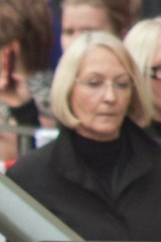 Hanna Foltyn-Kubicka, President Lech Kaczyński's funeral.